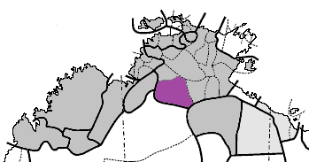 Yangmanic languages (such as Wardaman) are purple. Other non-Pama-Nyungan languages are grey.